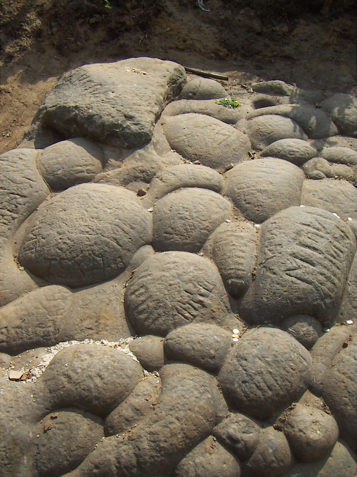 Women's (Devichiy, Diviy) stone from the former Veles pagan shrine in Kolomenskoe, Moscow, Russia.